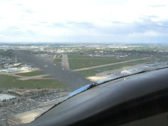 Landing in Edmonton CYXD